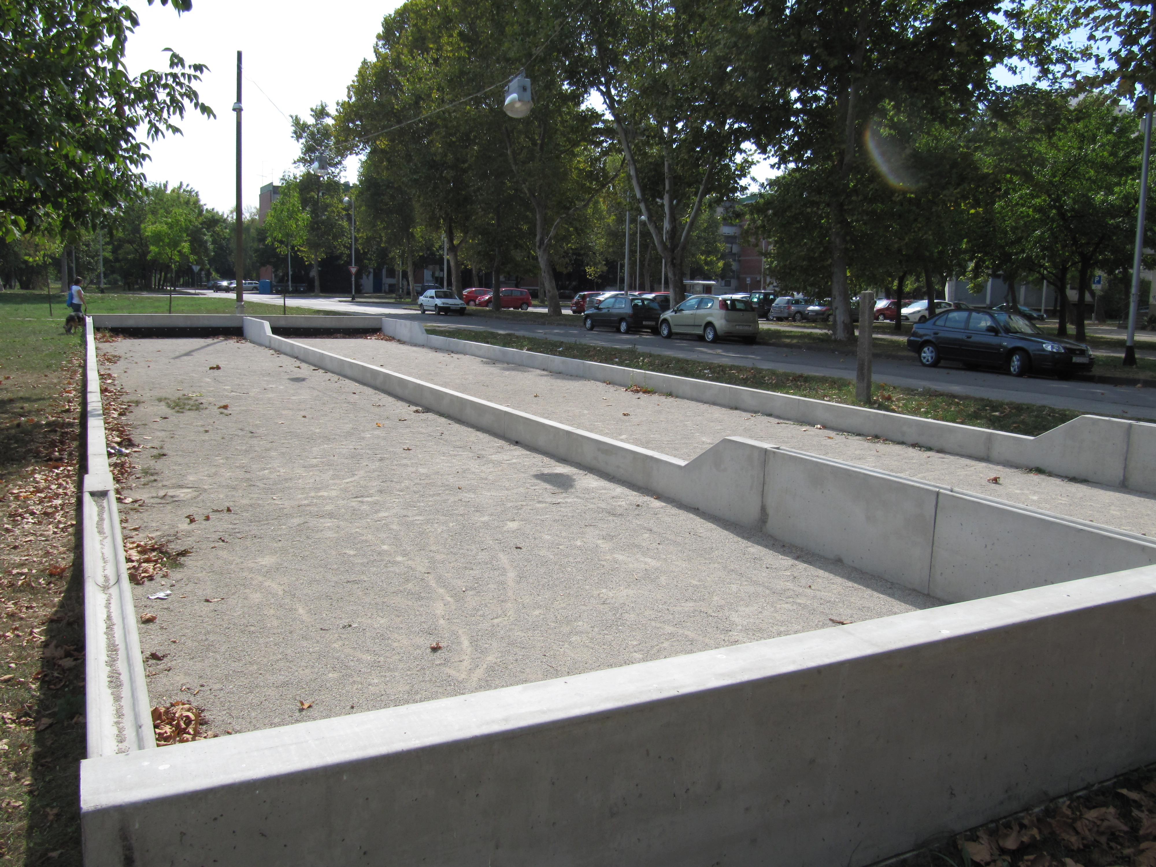 Bocce court in Dugave neighborhood, Zagreb, Croatia.